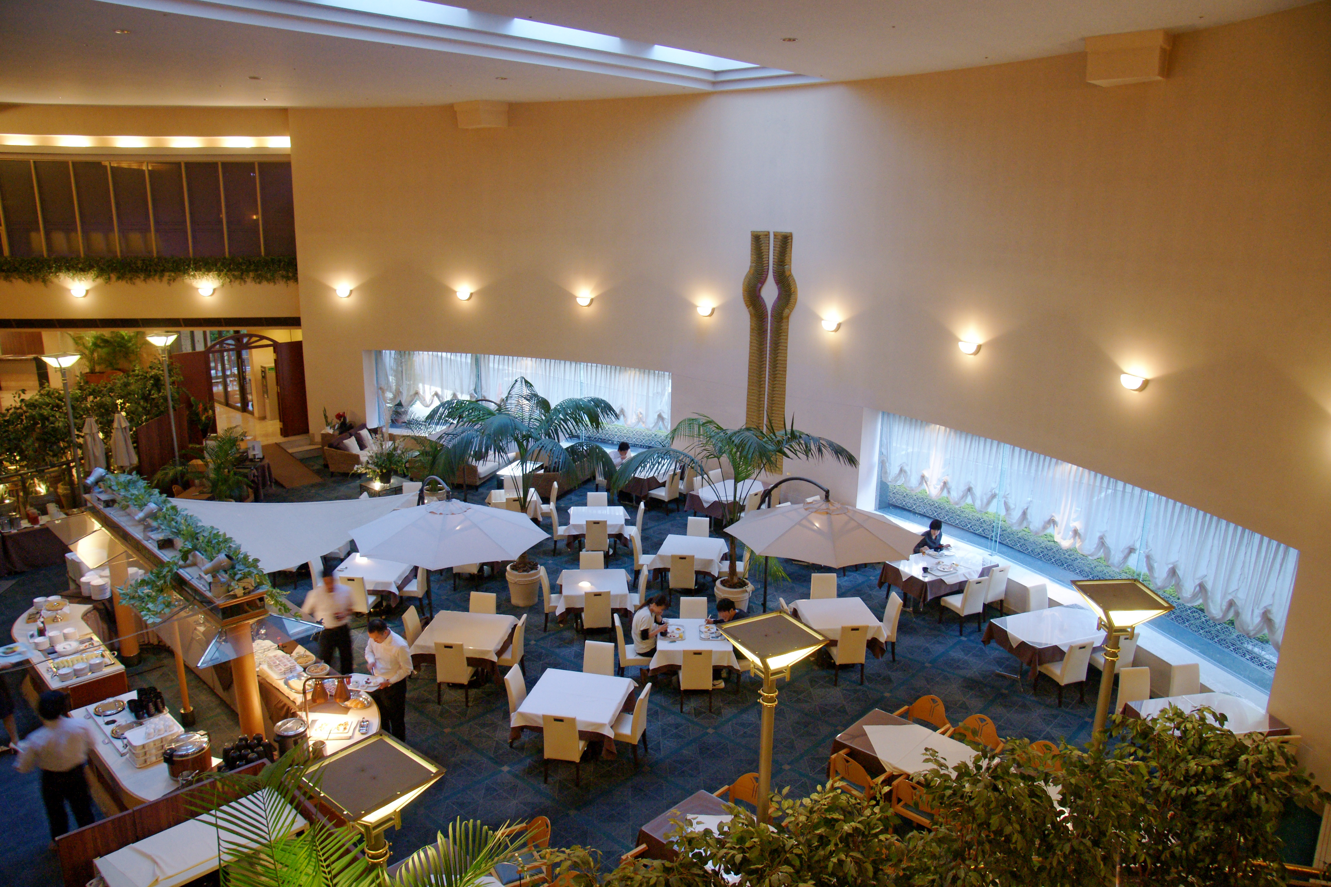 Hotel Pearl City Kobe (Hotel Management International Co.,Ltd. headquarters), Kobe, Hyogo prefecture, Japan